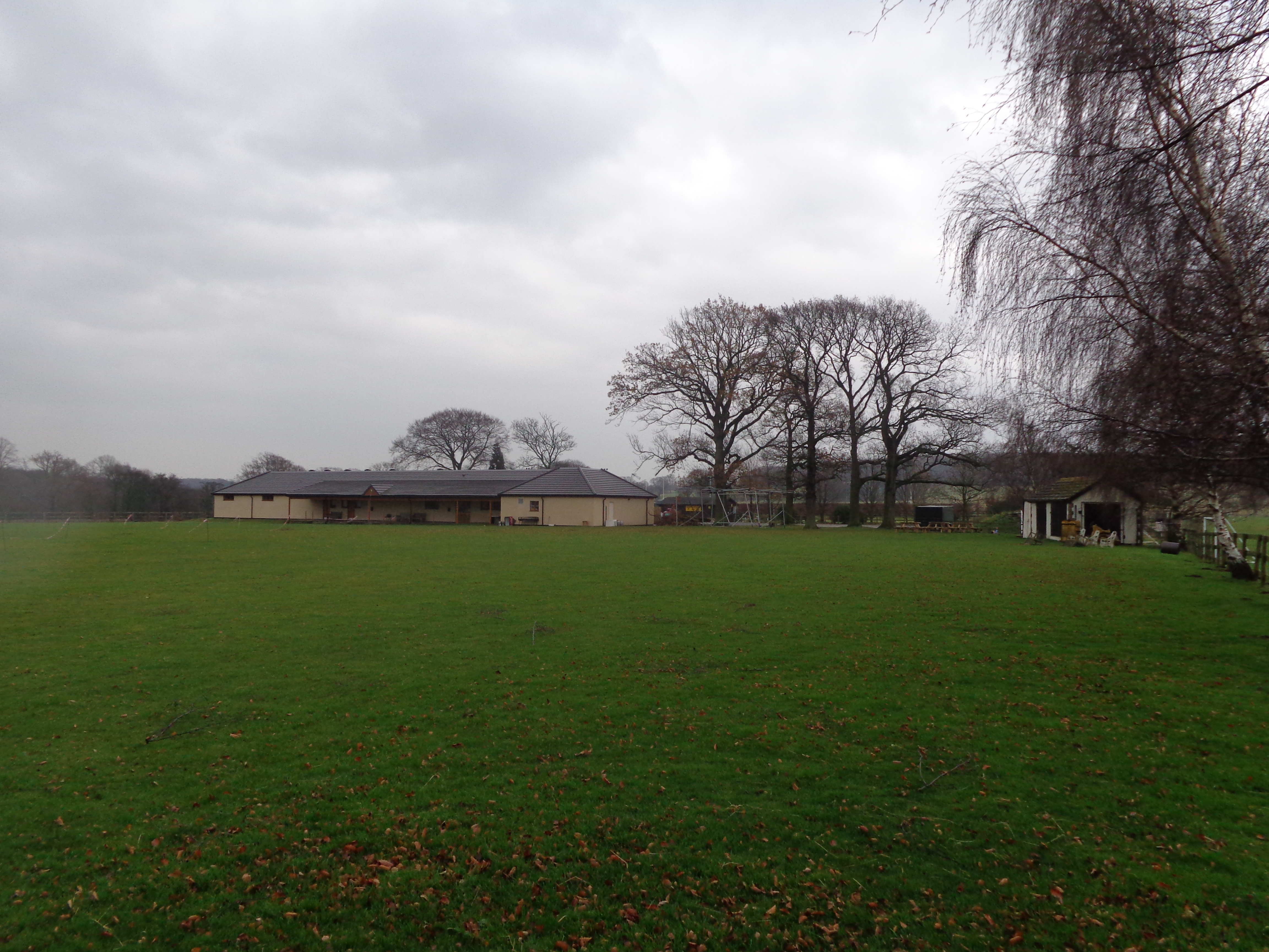 The rear of the clubhouse showing the pavilion overlooking the cricket field at Grange Park, Wetherby, West Yorkshire. Taken on the afternoon of Friday the 13th of December 2013.